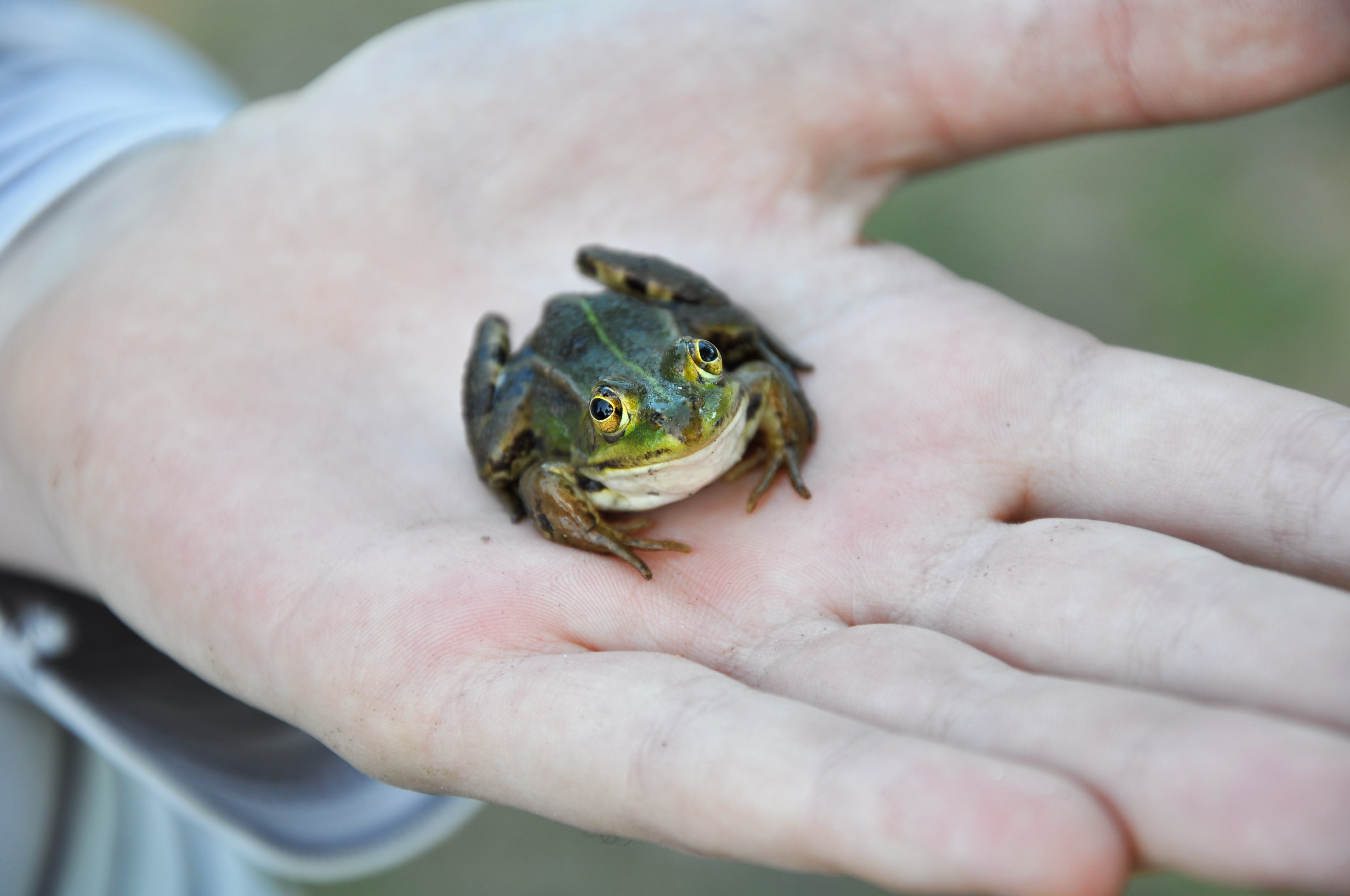 An Edible Frog (Pelophylax kl. esculentus, syn. Rana esculenta).